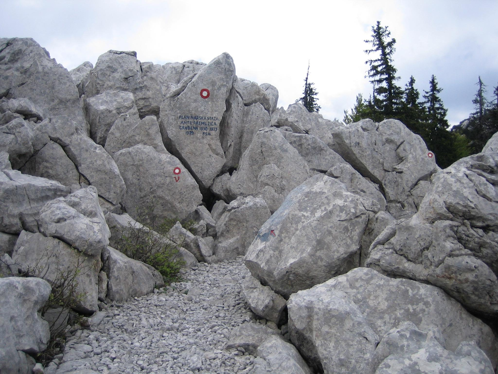 Premuzic Path, Croatia